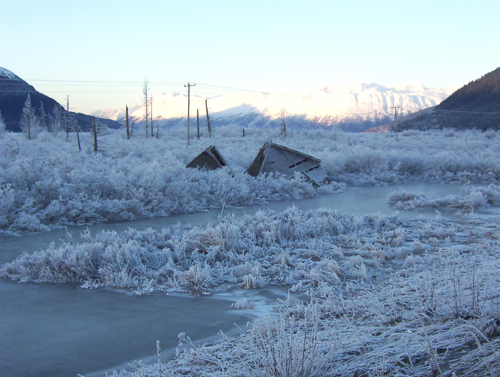 Building destroyed in the 1964 Good Friday earthquake, in the now-abandoned town of Portage, Alaska.